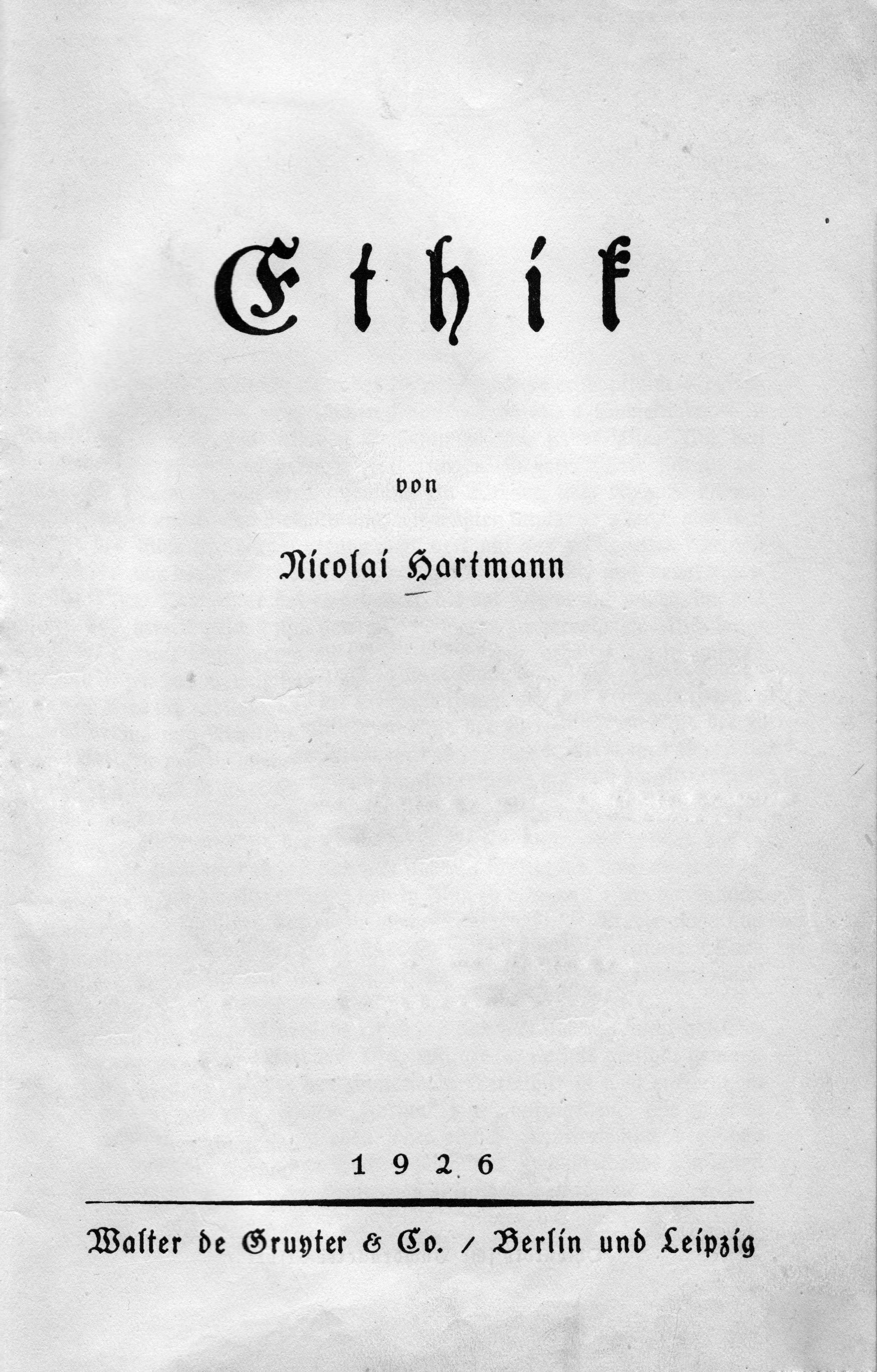 Title page from the first edition (1926) of Nikolai Hatmann's "Ethik"